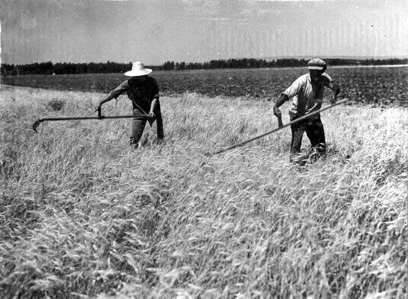 Ein Hahoresh, Agriculture in Israel